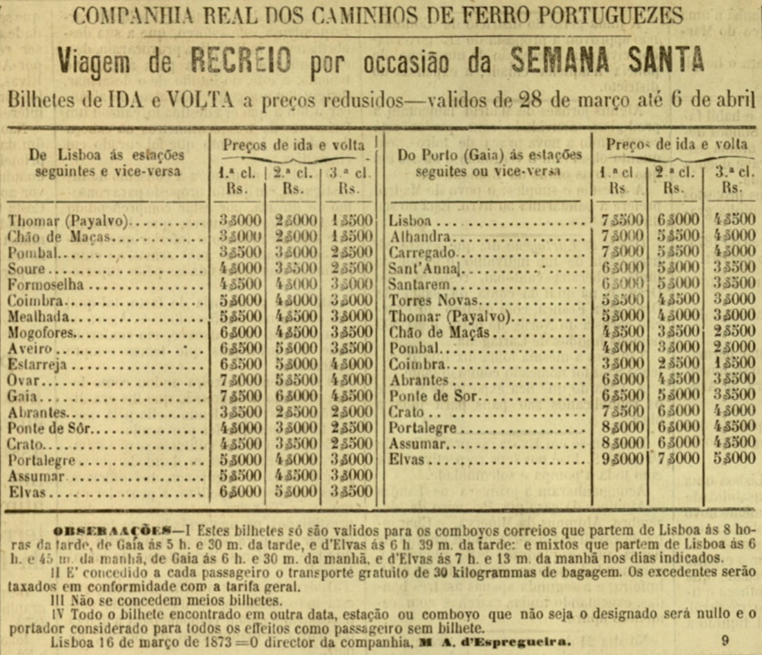 Advertisement of the Companhia Real dos Caminhos de Ferro Portugueses (Royal Company of the Portuguese Railways), for return tickets at special prices, during the Holy Week. This image was published on the Diario Illustrado newspaper No. 564, of 24th March 1874, and scanned by the Biblioteca Nacional de Portugal.